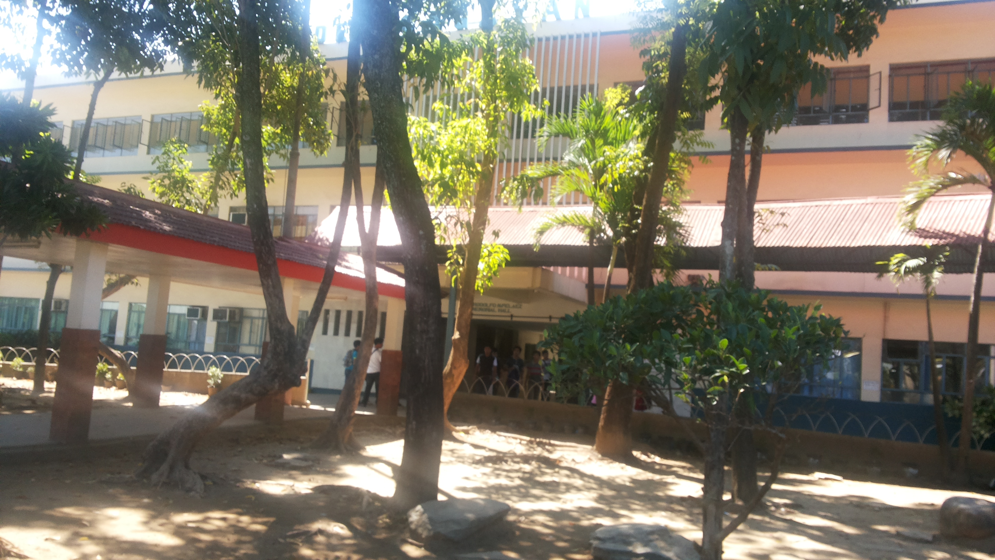 A picture of Liceo de Cagayan University, Basic Education Department within the gates. Picture taken with a Samsung Galaxy Mega